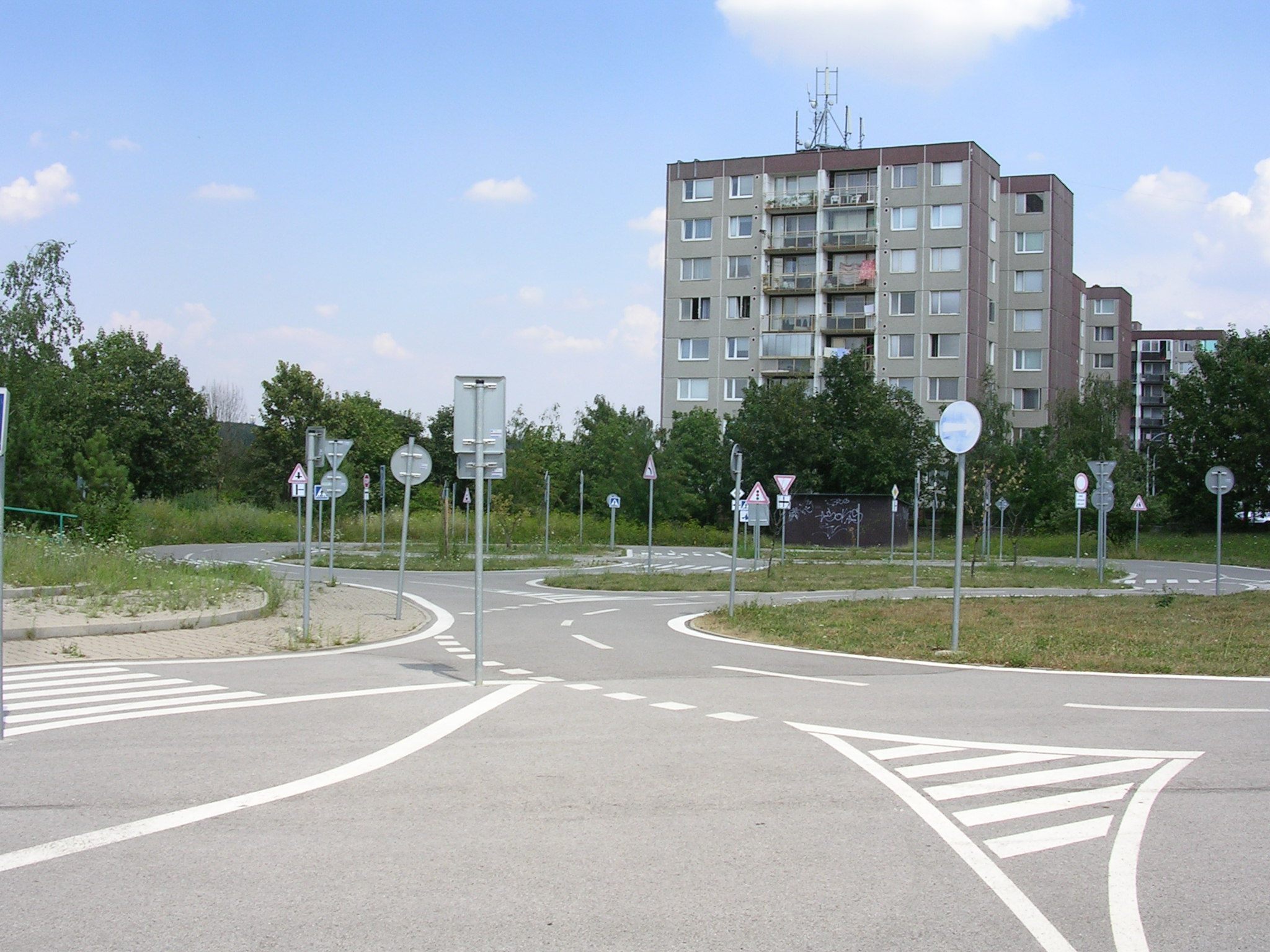 Czech Republic, traffic playground for education of childern. - OpenStreetMap(Info)